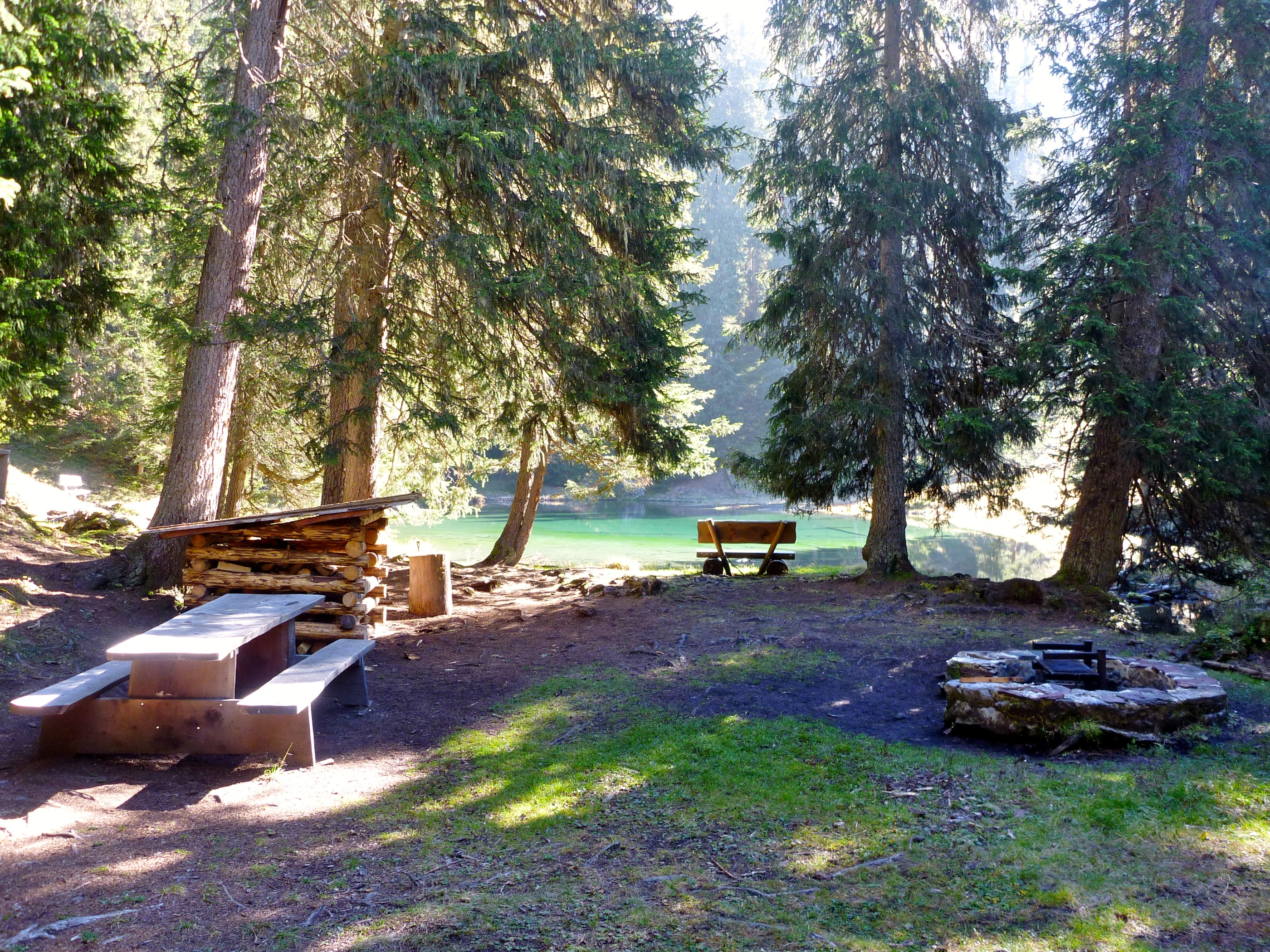 picnic place at lower Grünsee, Arosa